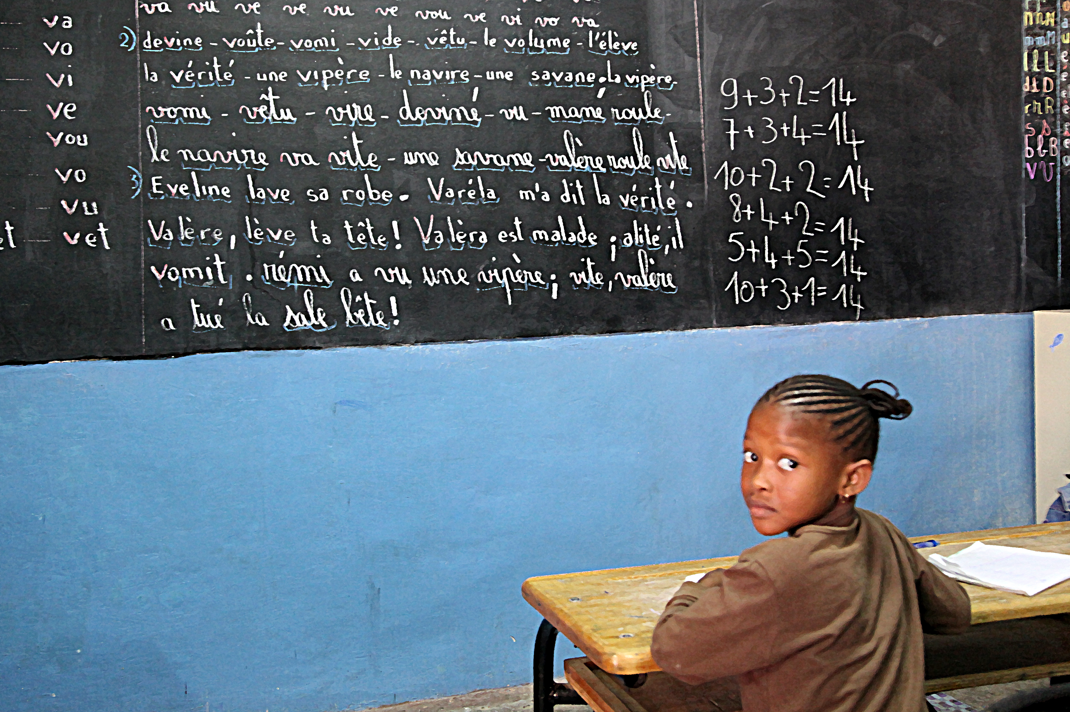 Schoolgirl in Gorée (Senegal)